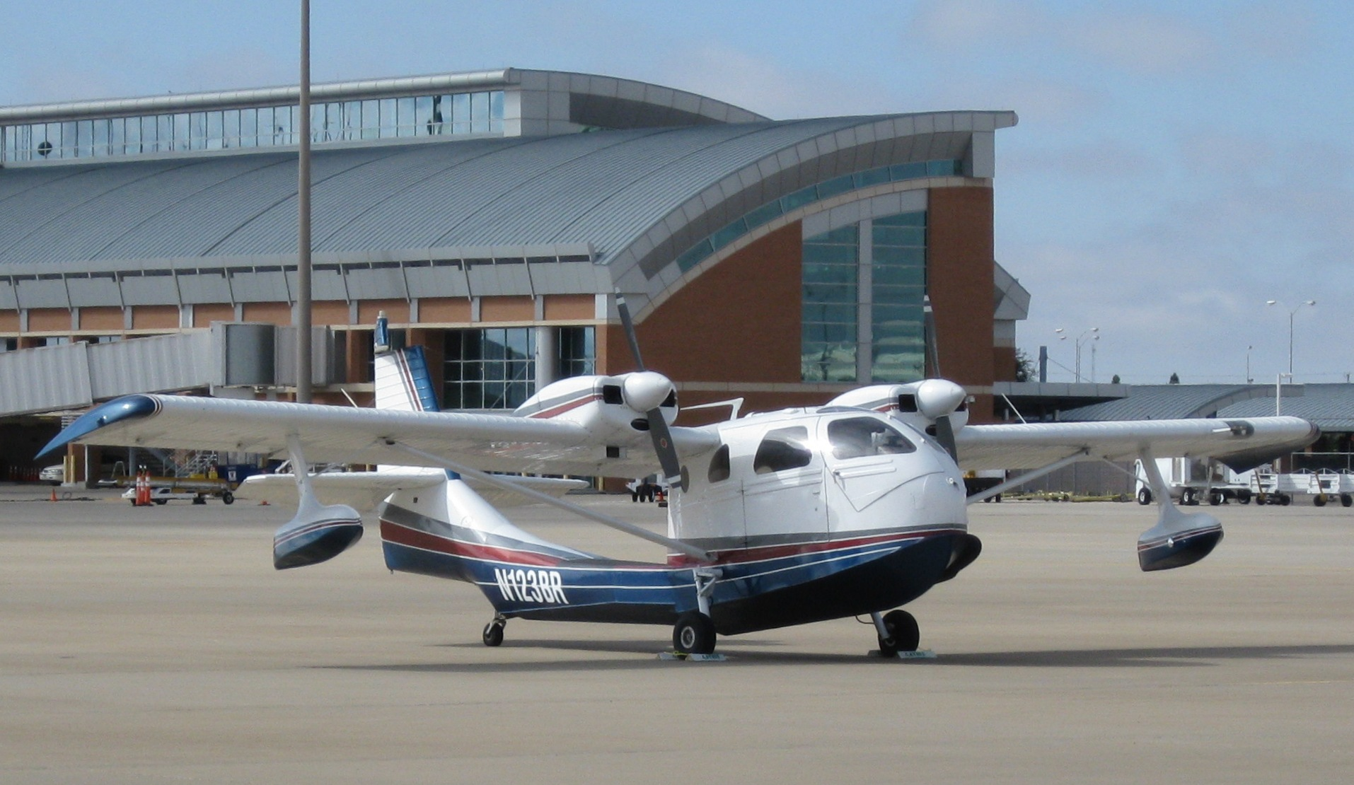 Republic SeaBee (N123BR), Midland, Texas